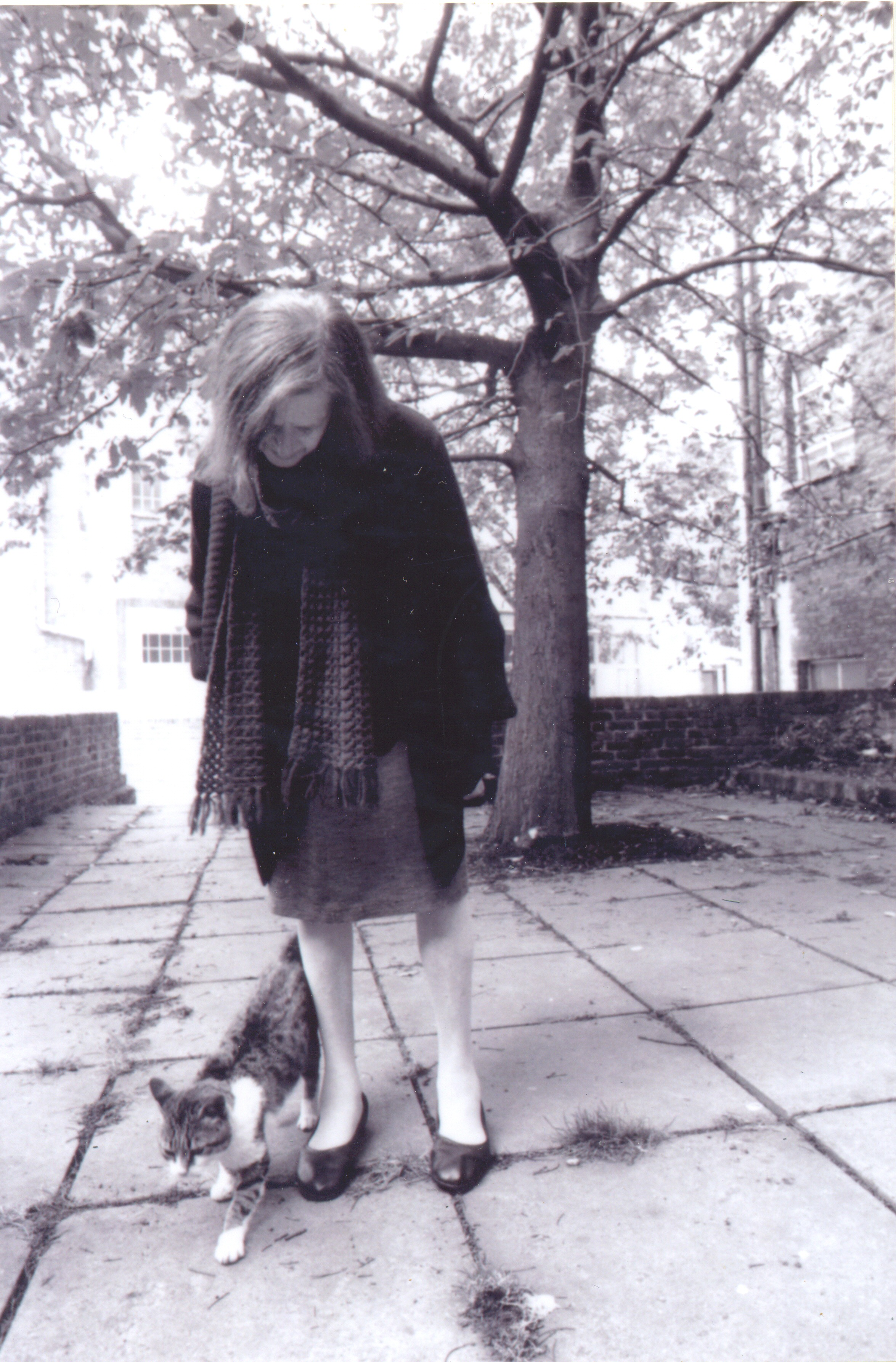 Naomi and her cat Louis. Photo was taken by her friend and helper Richard Mewton.